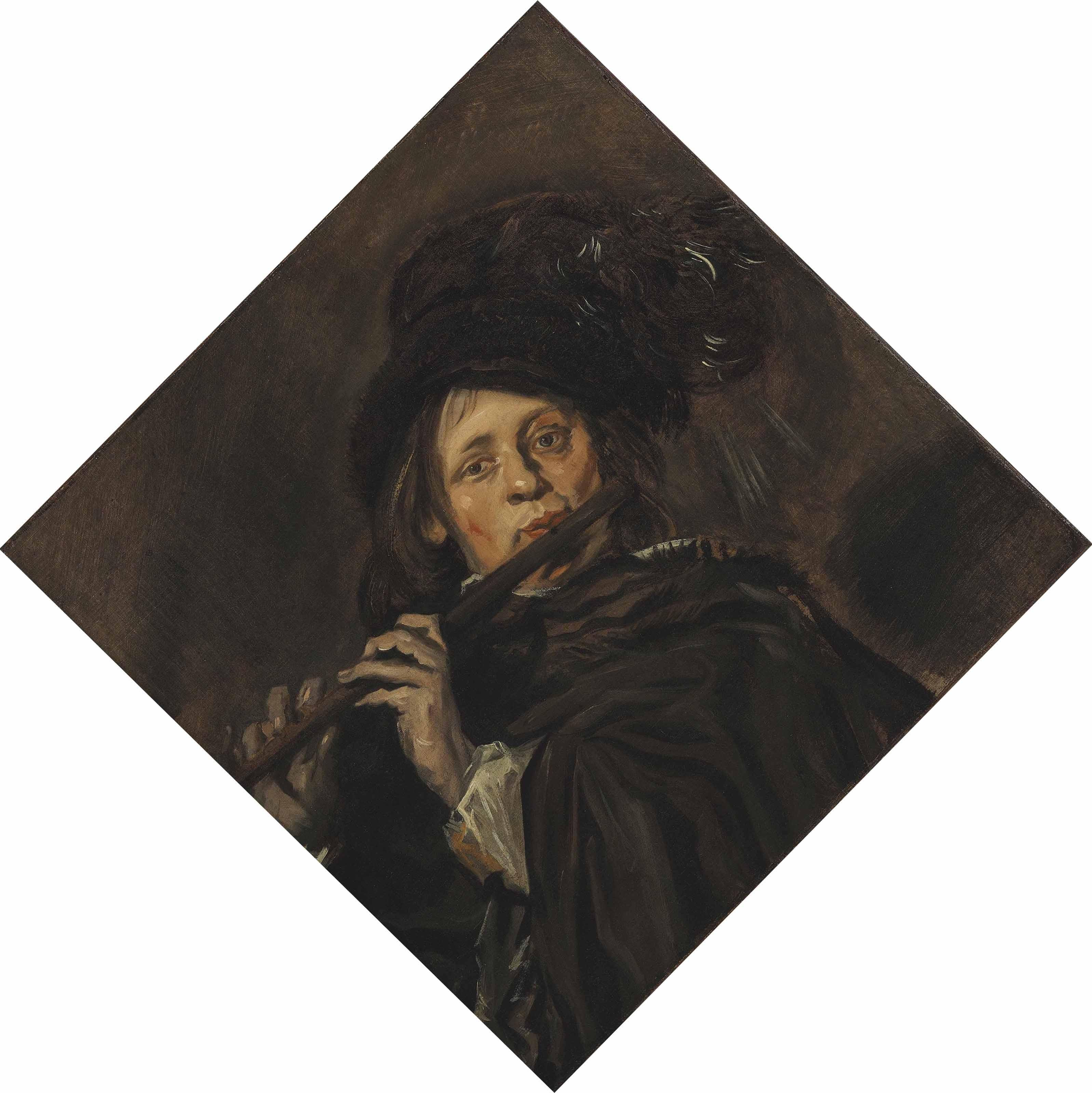 The Flute player